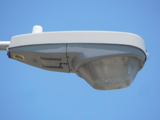 History of street lighting: Hubell RMG semi cutoff (200–400 watts)